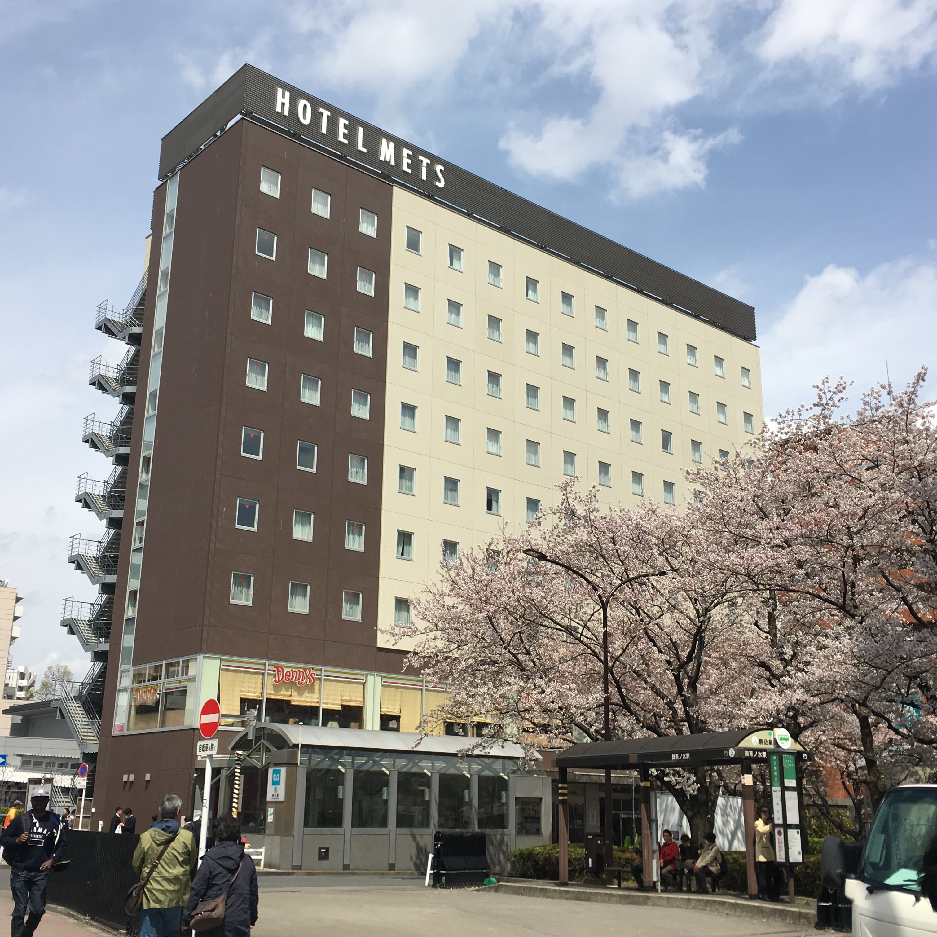 Hotel Mets Komagome (Tokyo, Japan)